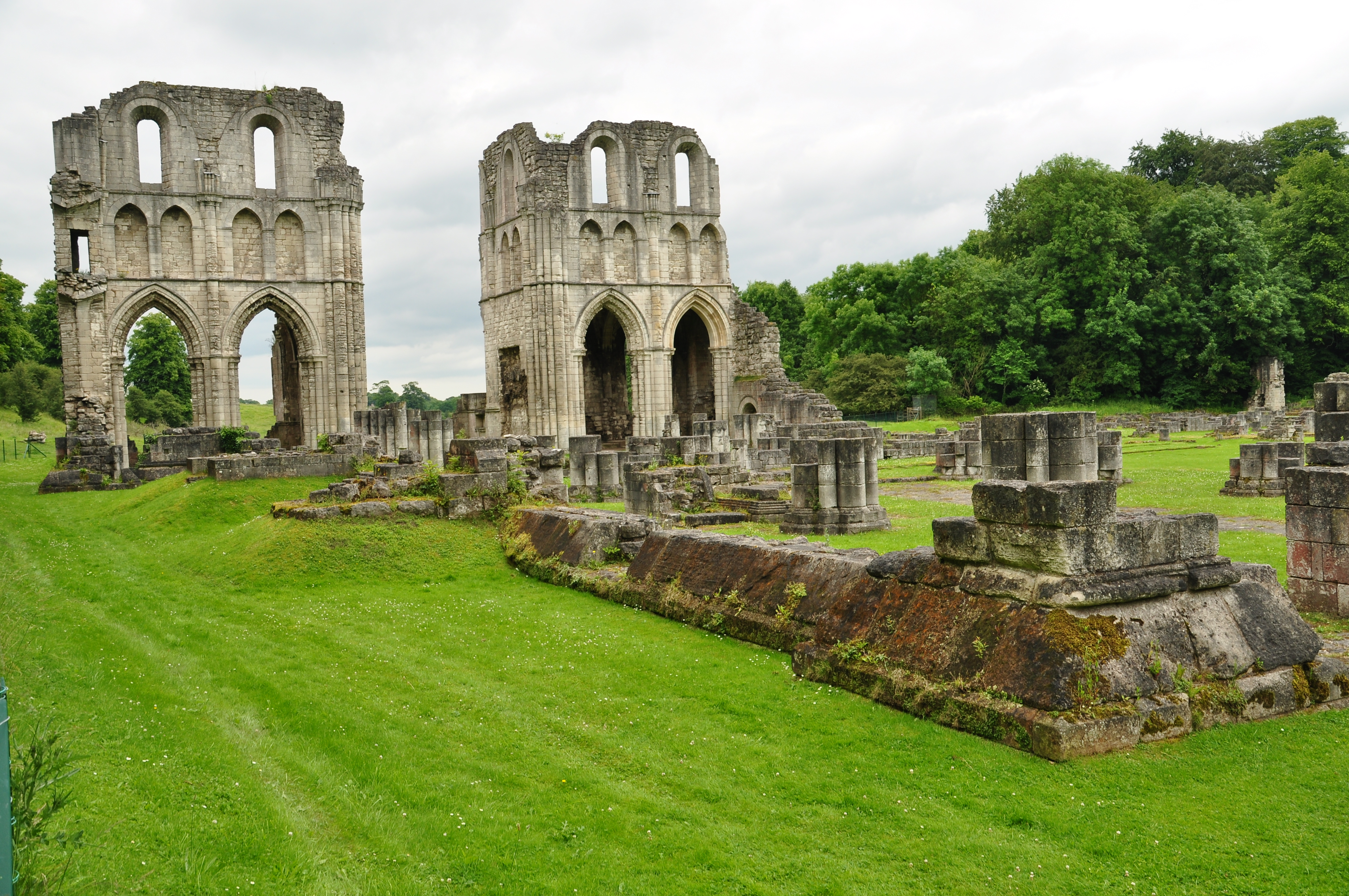 Roche Abbey